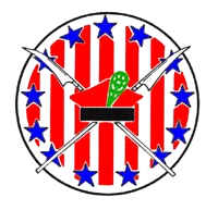 The roundel of the Kościuszko Squadron and the 111th Polish Fighter Escadrille